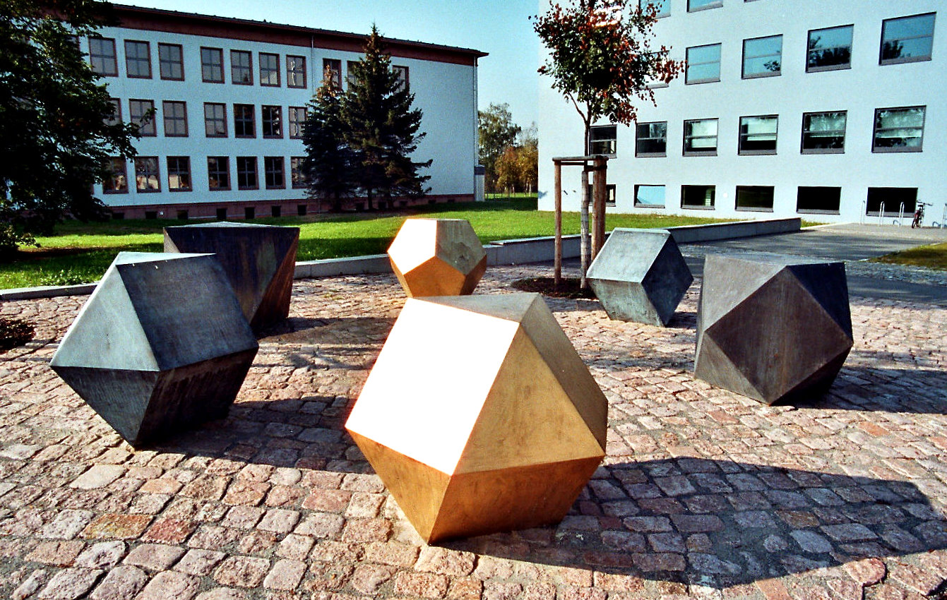 Modern art in Riesa non Thomas Reichstein